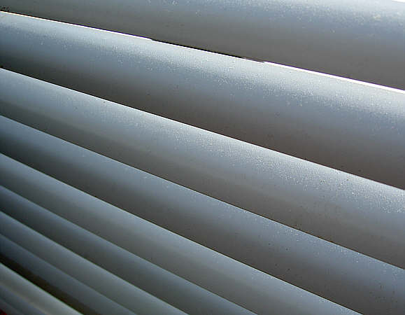 Slats of a Venetian blind